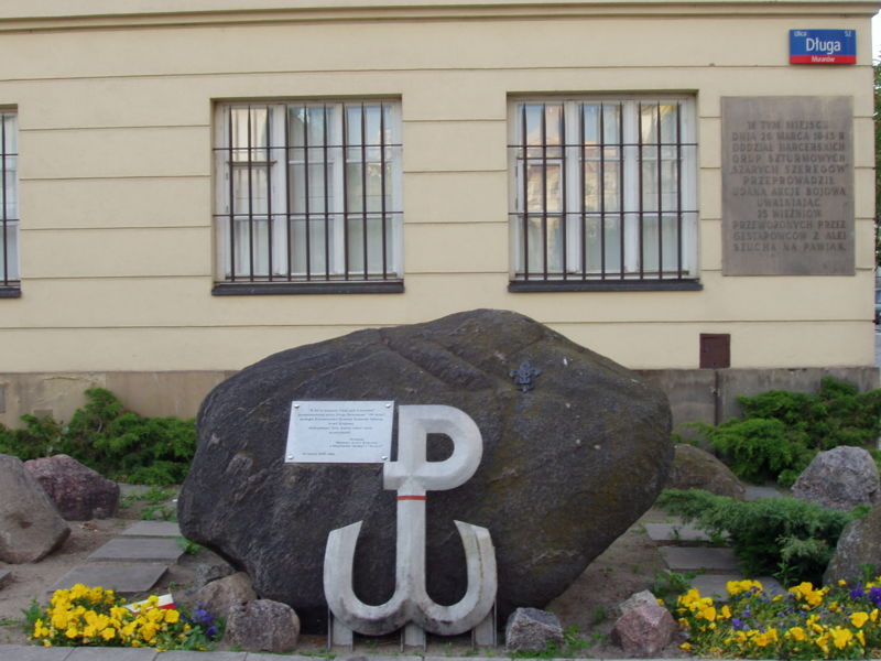 Statue of Operation Arsenal